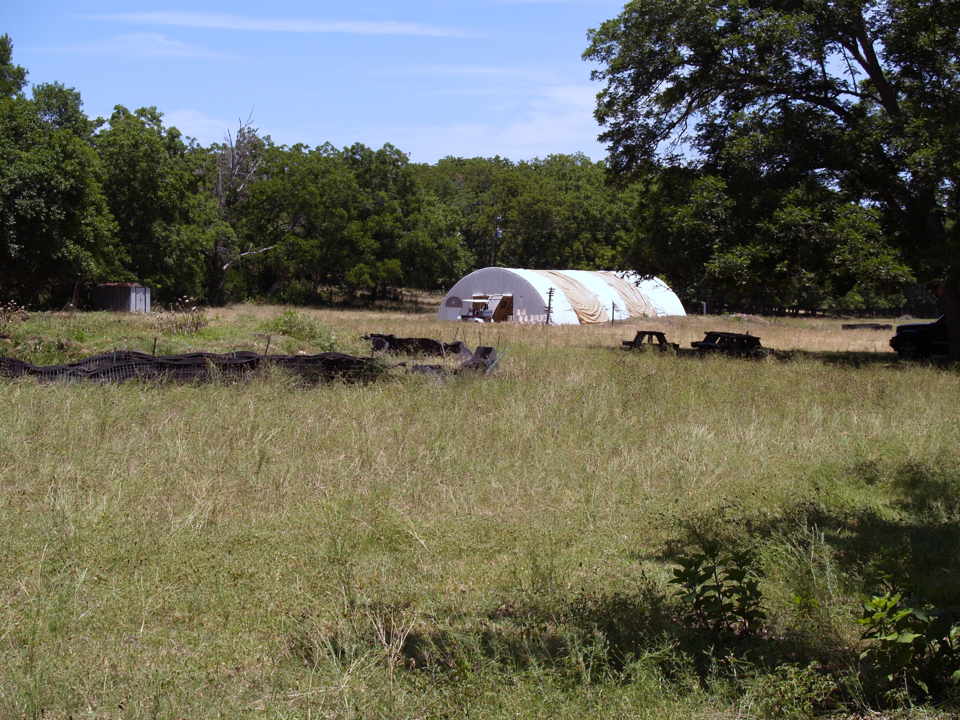 Shows the tent covering the excavation of area 15 at the Gault site